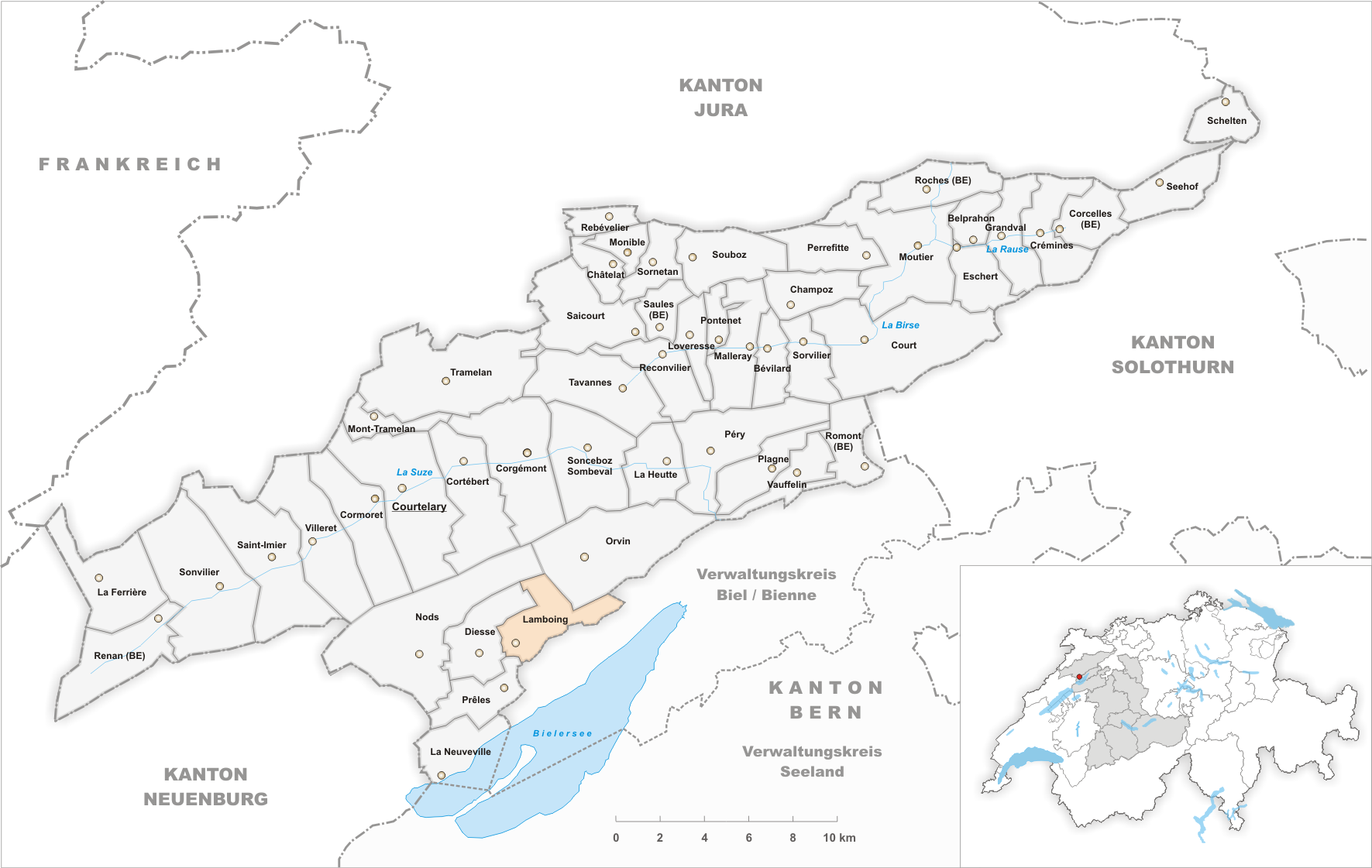 Municipality Lamboing